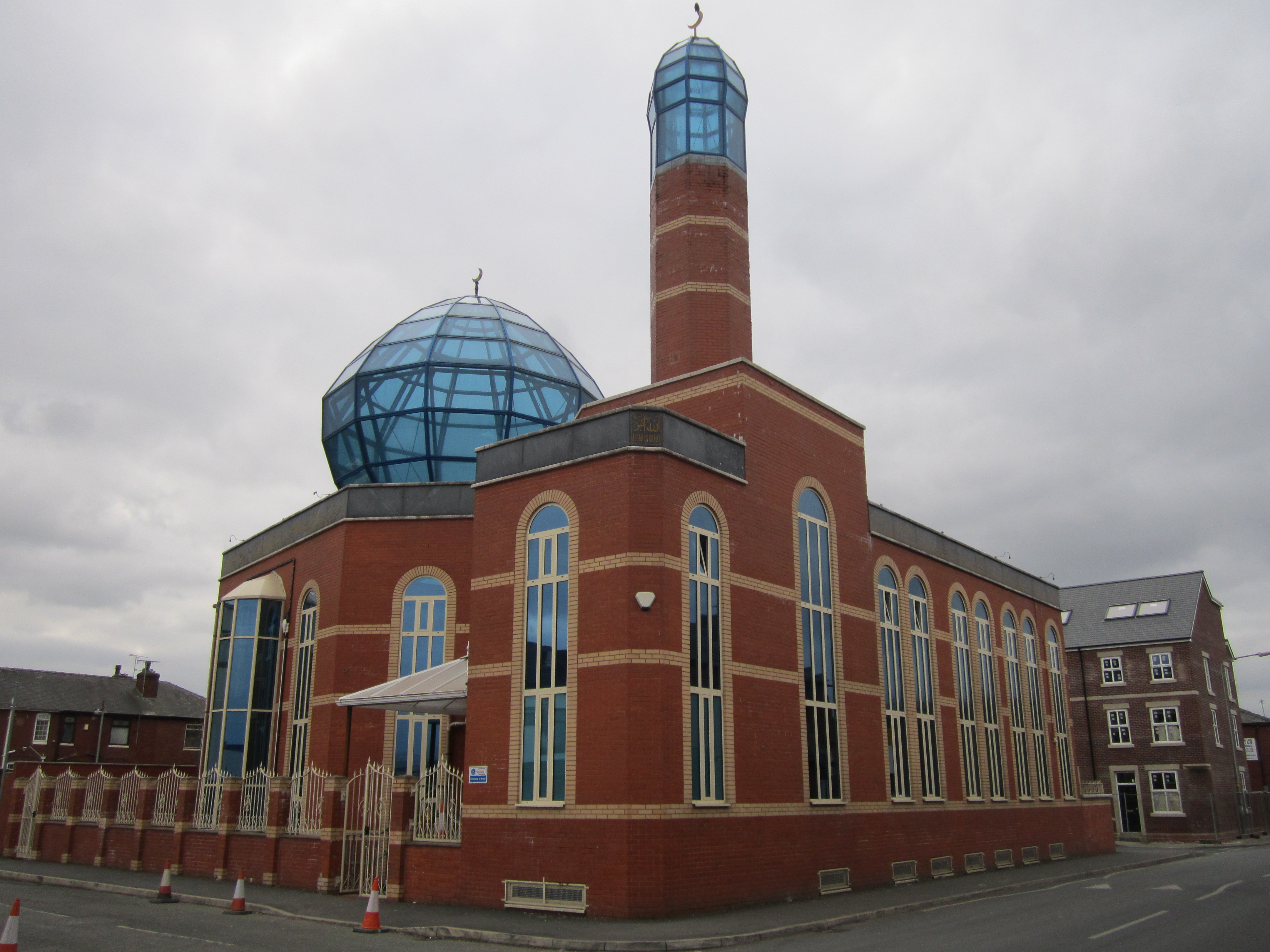 Milkstone Mosque as seen from Durham Street, Rochdale, Greater Manchester, England.